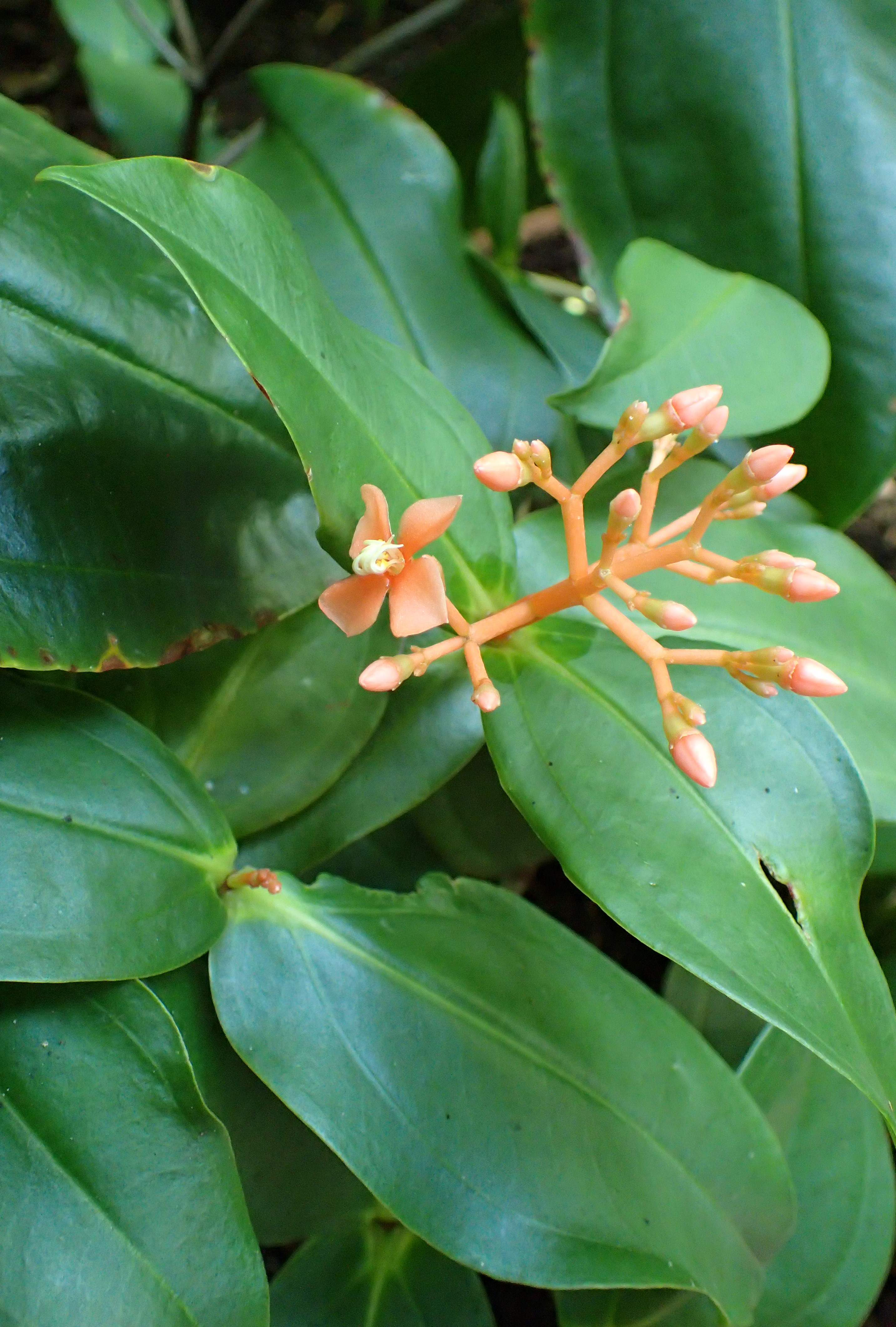 Medinilla scortechinii in Boltz Conservatory, Madison, Wi